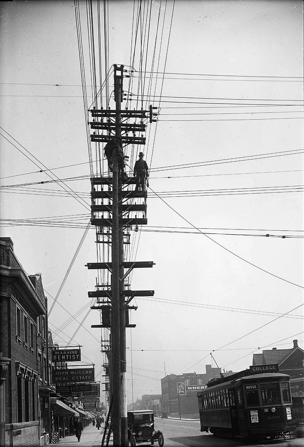 Northeast corner of Danforth Avenue and Greenwood Avenue, Toronto, Canada.